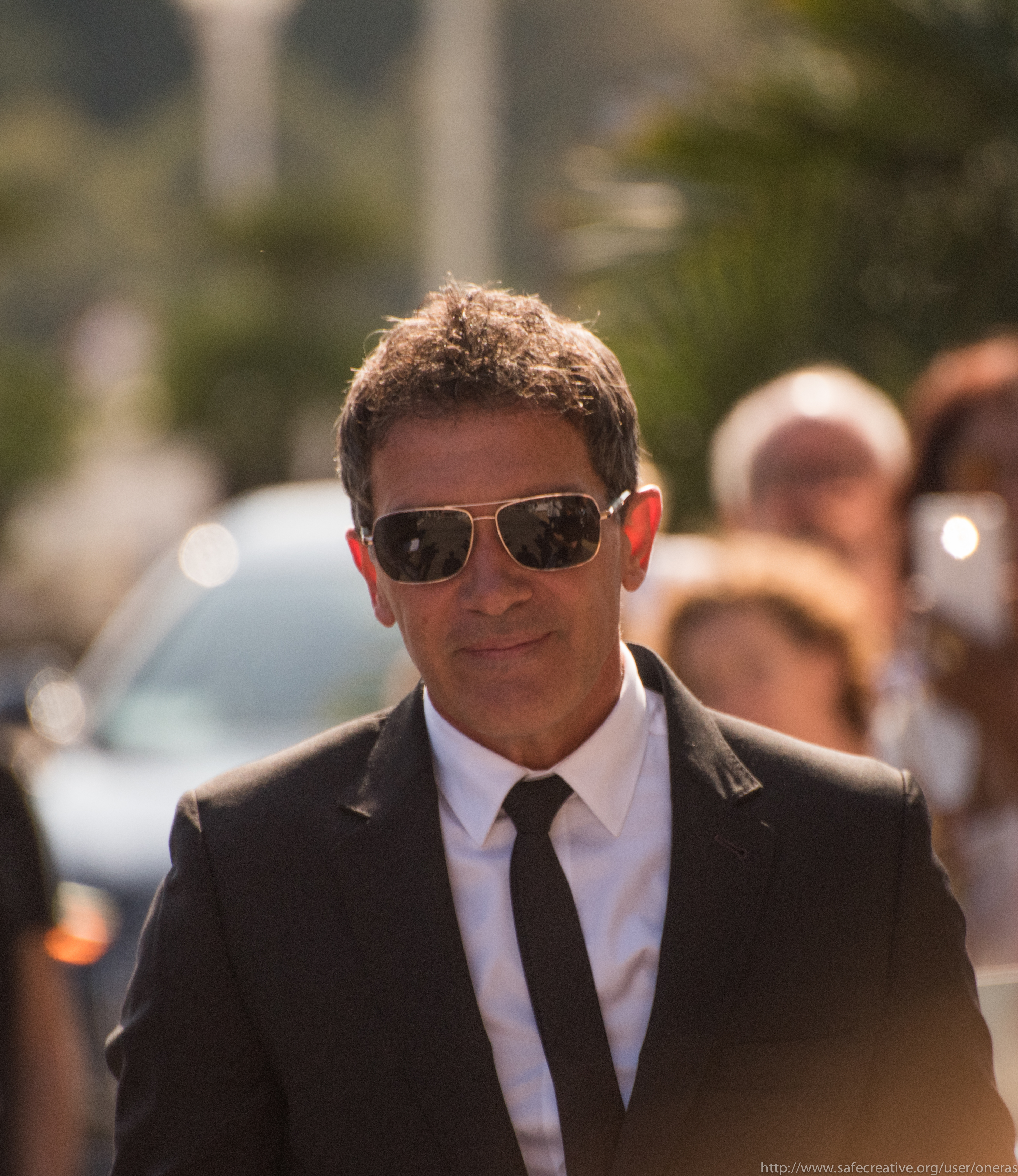 Mr. Antonio Banderas during his visit to 65th International Film Festival in San Sebastian, Spain